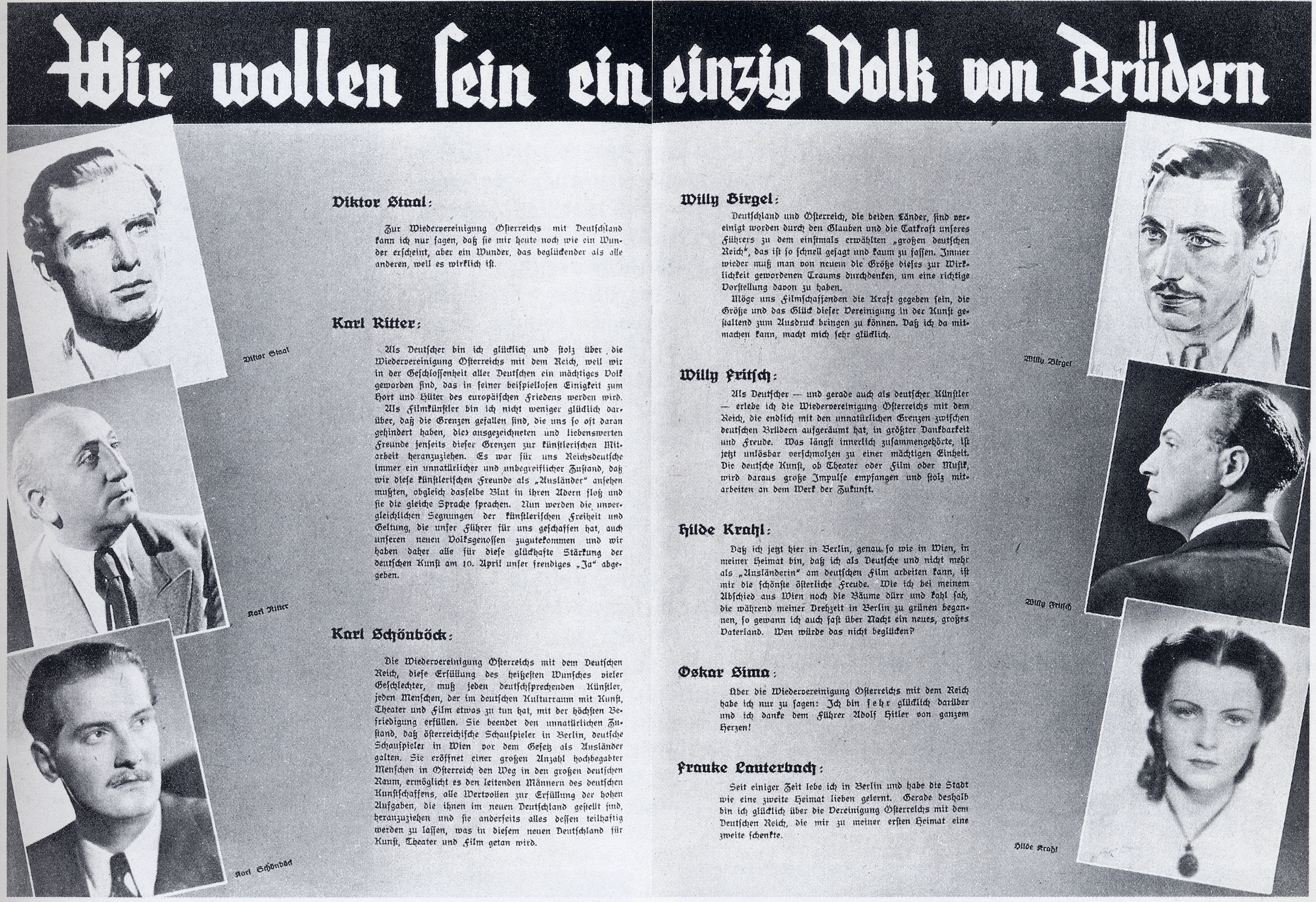 Wir wollen sein ein einzig Volk von Brüdern